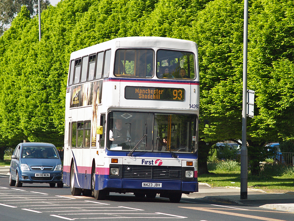 First Manchester Limited (originally London Central Bus Company Limited) 34263 N423 JBV, a Volvo ‘Olympian’ YN2RV18Z4 built 1995 with Northern Counties ‘Palatine’ H47/30F body on Manchester Road, Bury with the 15:50 Bury Interchange to Manchester Shudehill Interchange via Unsworth, Prestwich and Carr Clough 93 service. Thursday 15th May 2008